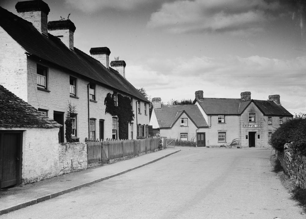 Abstract: Griffin Inn, Llyswen, Brecon